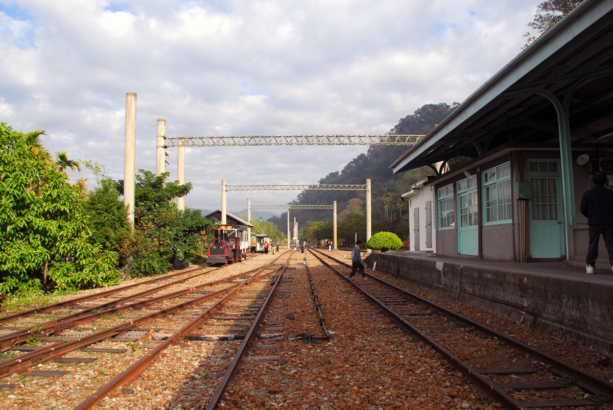 Taian Station (Old) is a train station along Old Mountain Line, an abandoned section of Taichung Line, one of the trunk line of Taiwan Railway Administration. It is located within the boundary of HouLi Township, TaiChung County. Today the station has been turned into a tourist site rather than a transportation infrastructure. This photo shows the rail area which have been functioned as waiting lines before Taichung Line changed route.